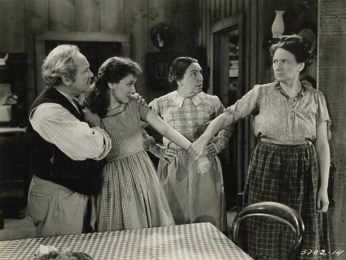 Left to right: George Cleveland, Jean Parker, Sarah Padden, and Marjorie Main in Romance of the Limberlost (1938) - publicity still (cropped)